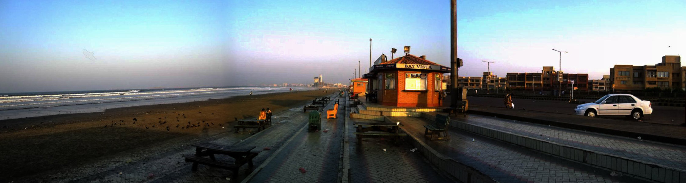 A panorama of Clifton Beach in Karachi